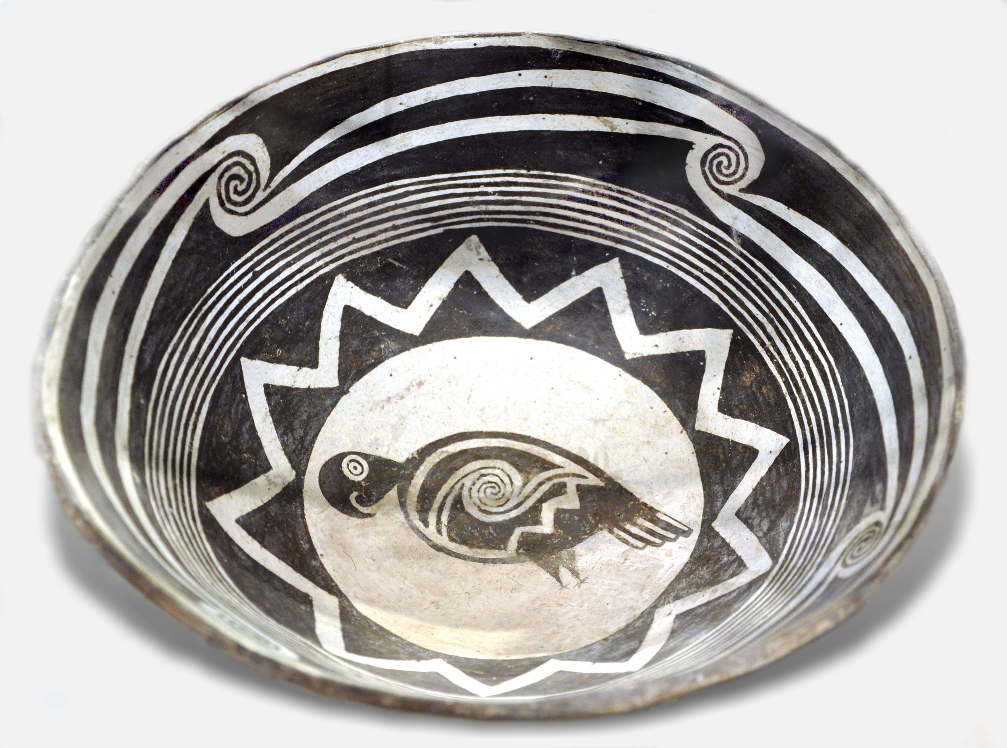 Mimbres boldface black on white pot, Macaw in center